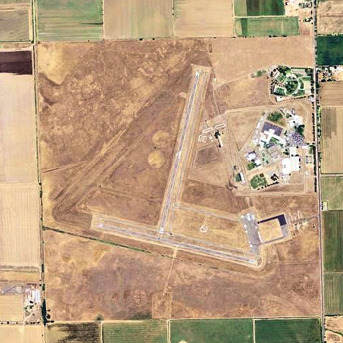 USGS digital orthophoto of Franklin Field in California